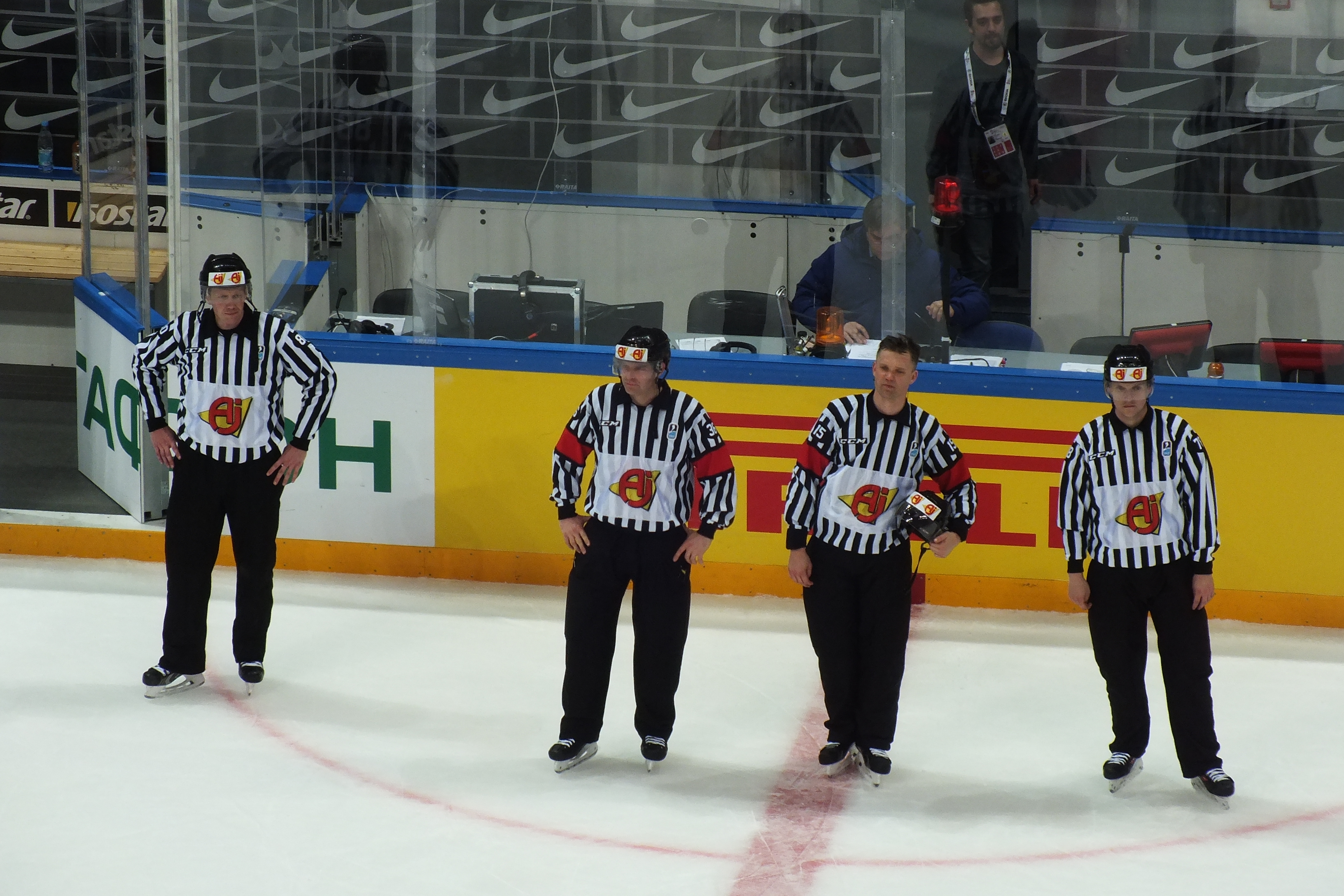 2016 IIHF World Championship - Norway vs. Denmark (07.05.16).